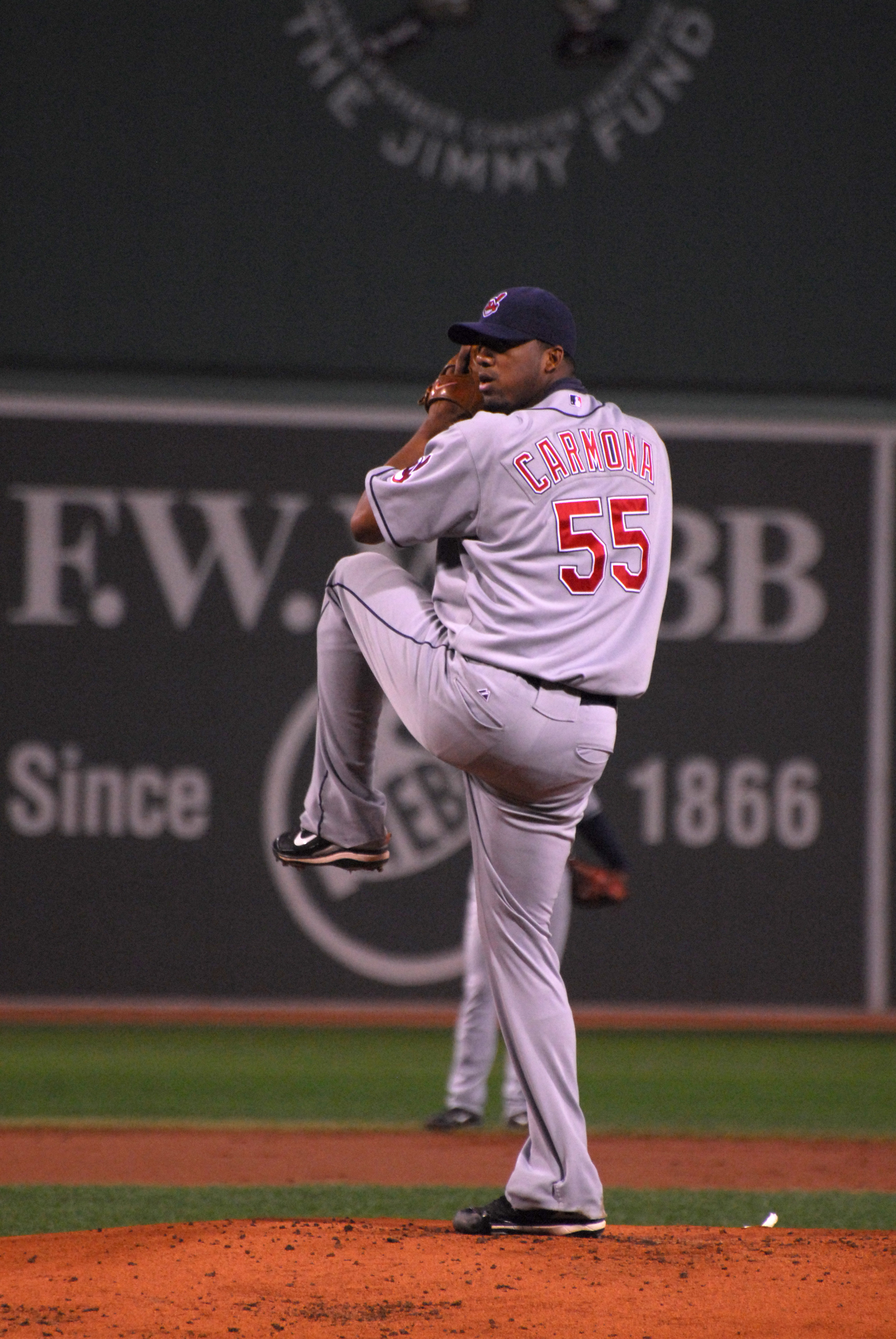 Fausto Carmona of the Cleveland Indians in Fenway Park, 2008